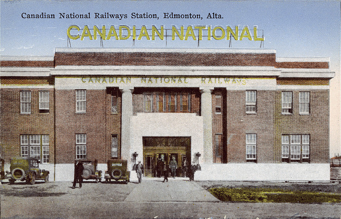 Postcard showing the former CNR railway station in Edmonton, demolished for the construction of the CN Tower.